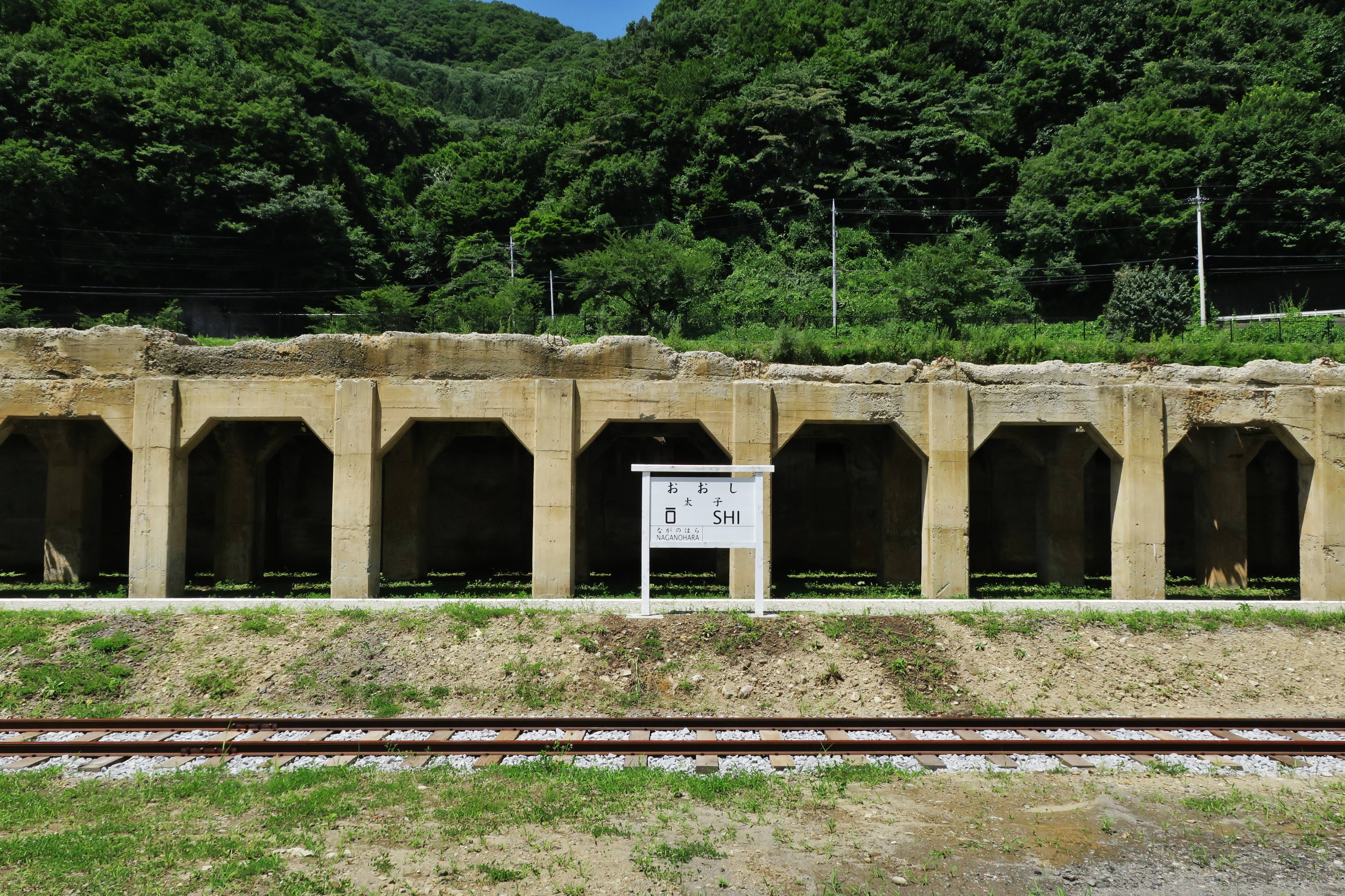 Ōshi Station.